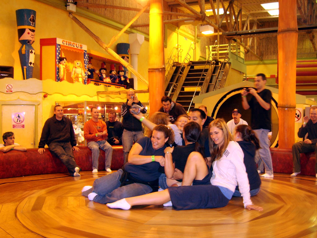 The Funhouse at the now closed Pleasureland Southport in the United Kingdom. Picture taken during the Theme Park Review 2006 tour.